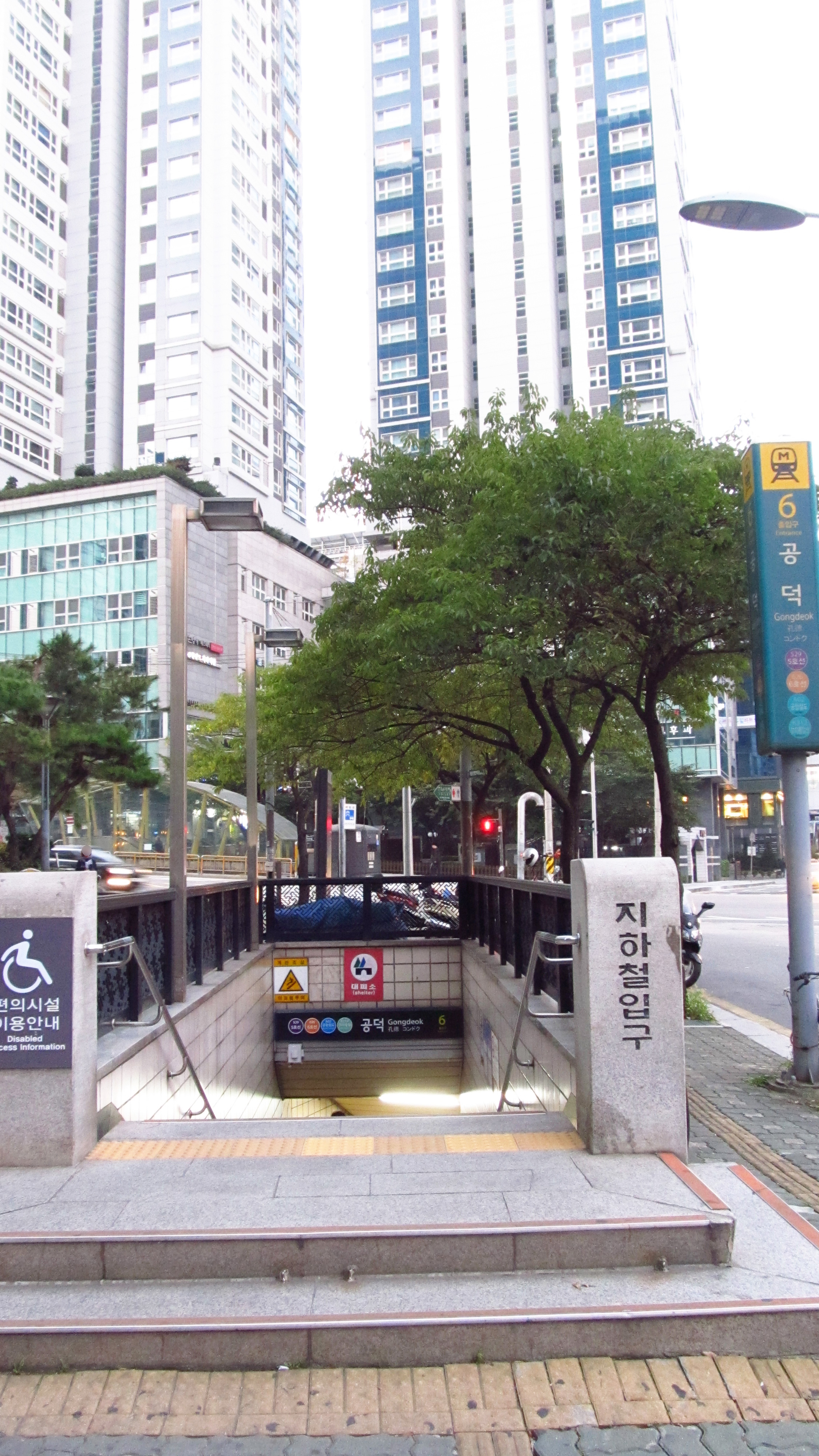 The no.6 entrance to Gongdeok Station on the Seoul Metro Line 5, Line 6, Gyeongui-Jungang Line and AREX in Mapo-gu, Seoul, Republic of Korea(South Korea)